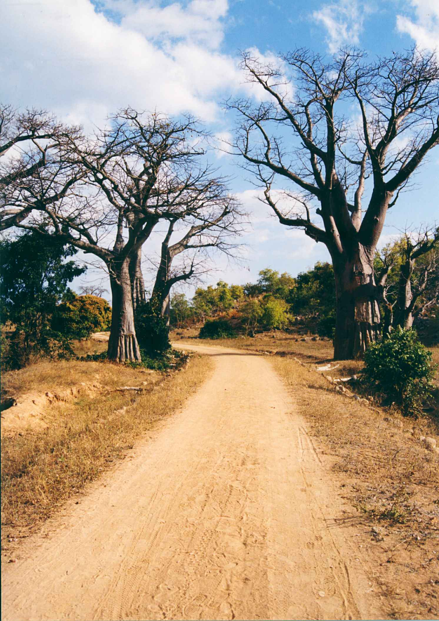 Dust road and baobab trees in Likoma Island, Malawi